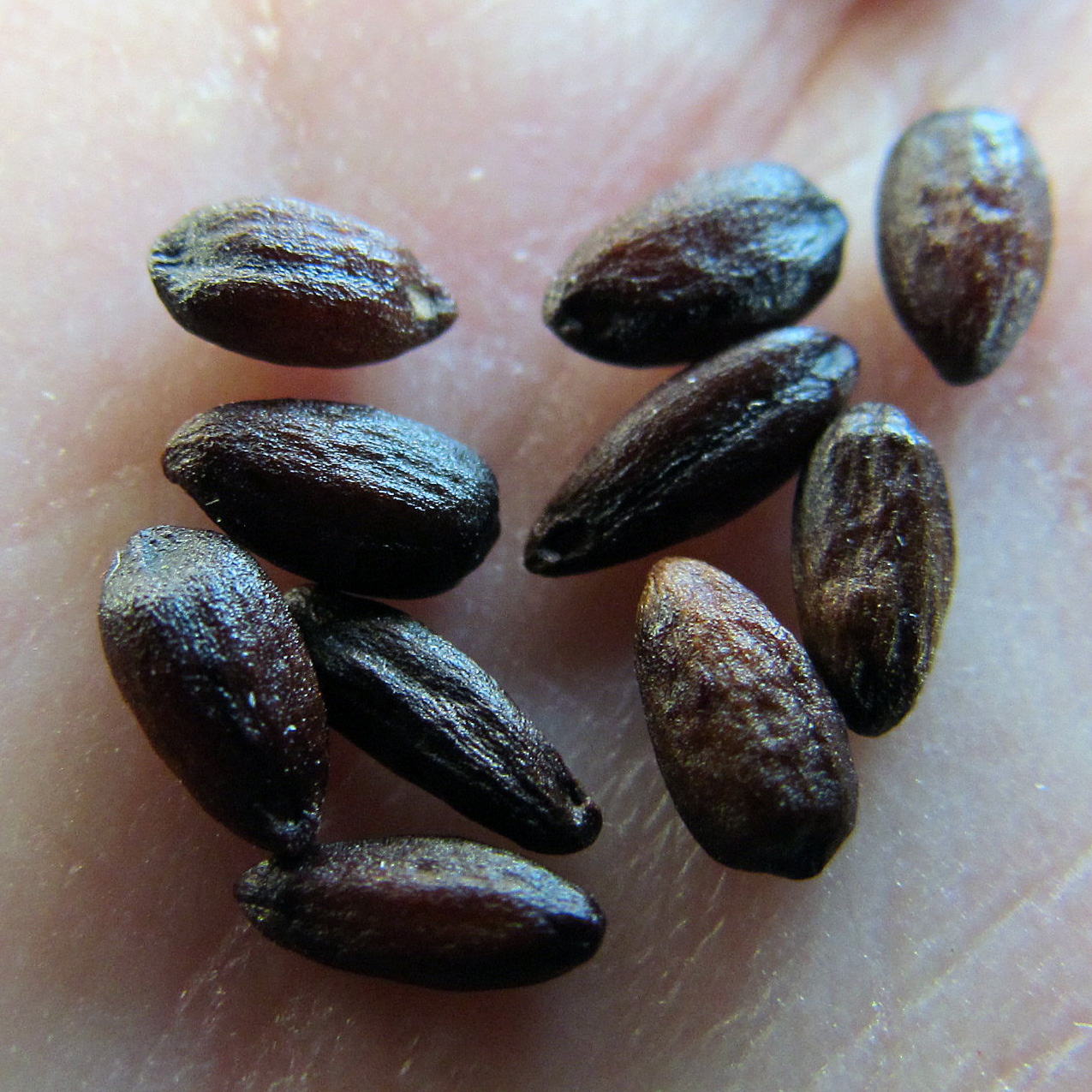 Seeds of Berberis julianae